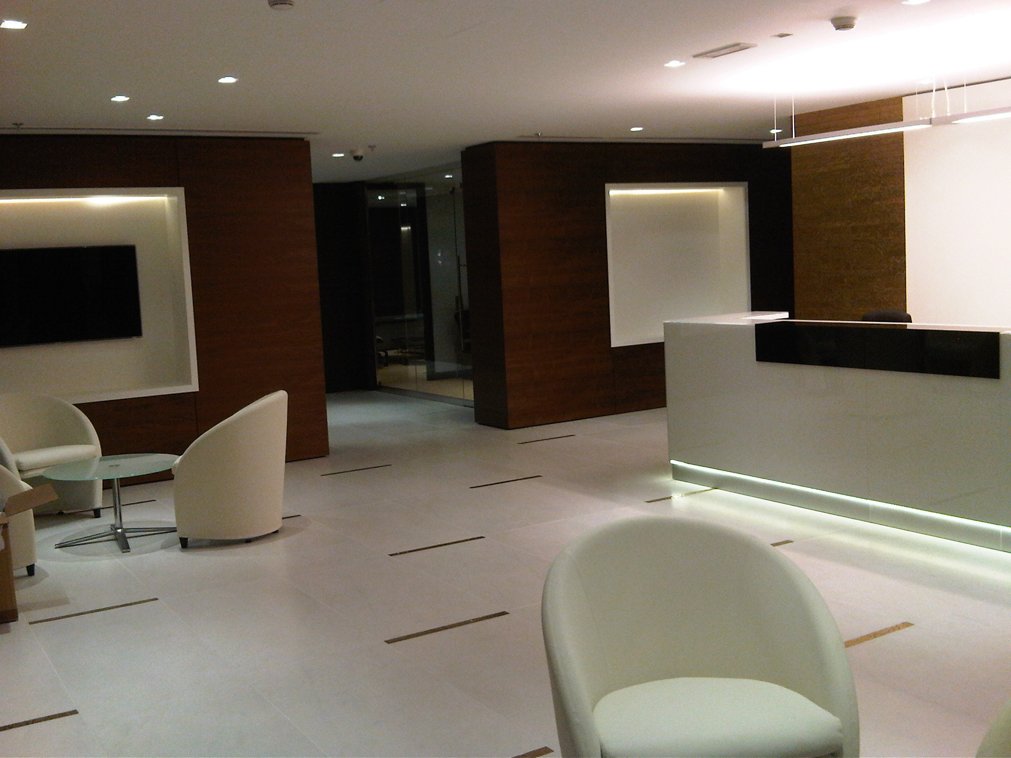 King Road Tower, Jeddah An office receiption inside the tower.